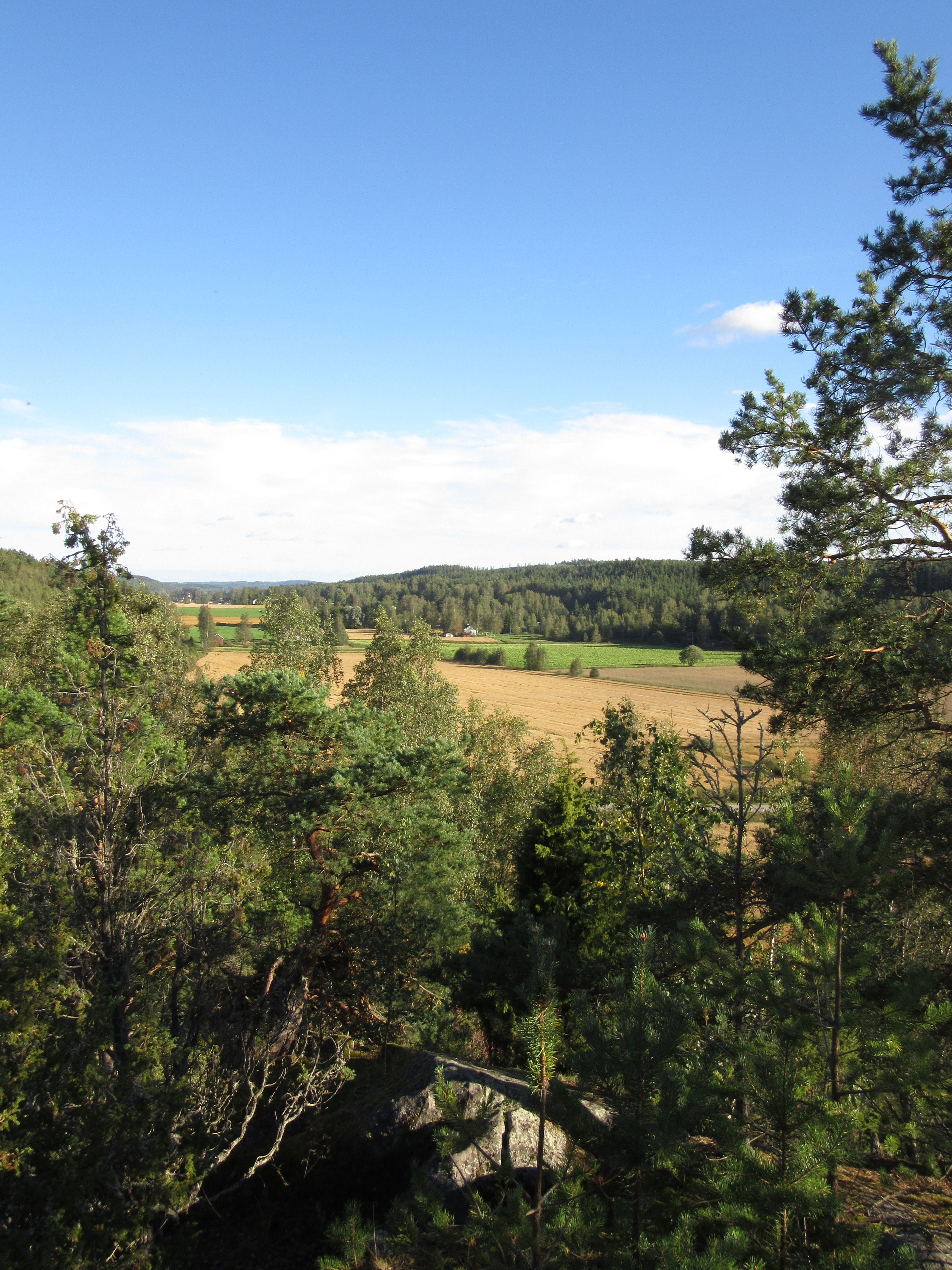 A view from the top of Laurinkallio over the fields.